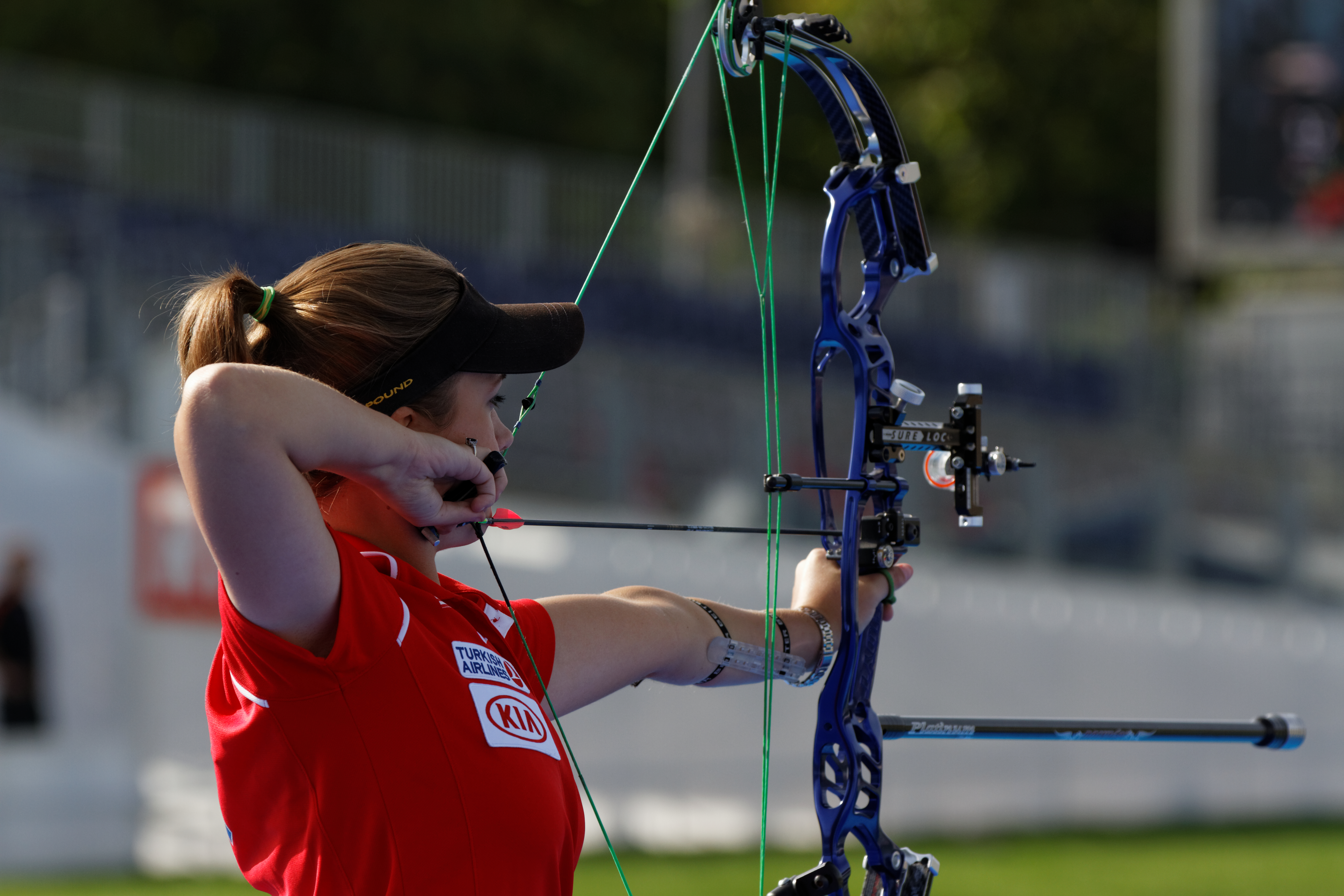 2013 FITA Archery World Cup, Paris, France. Women's individual compound final: Alejandra Usquiano vs Erika Jones.